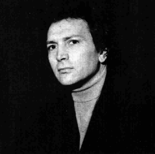 Italian actor Osvaldo Ruggieri